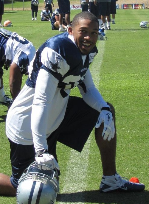 Orlando Scandrick at the Dallas Cowboys training camp in 2010.